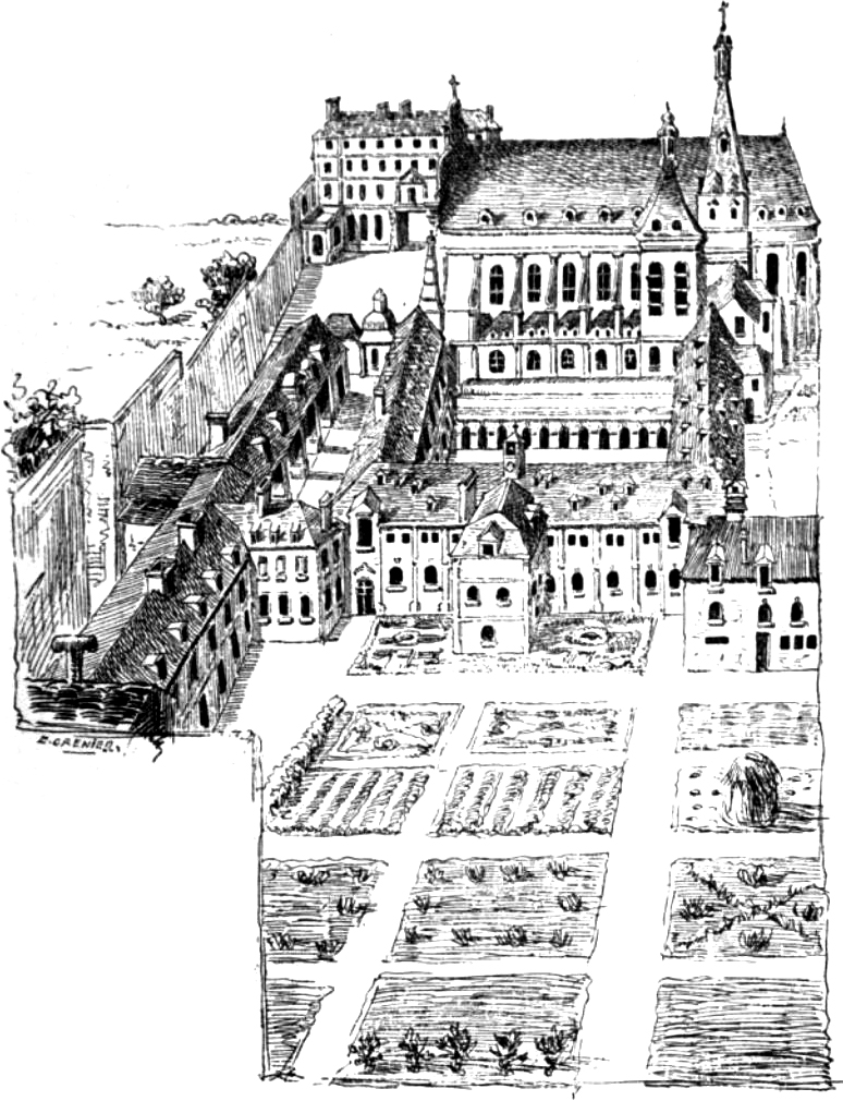 View of the Garden of the Feuillants Convent in Paris, France, from the Manège of the Tuileries .